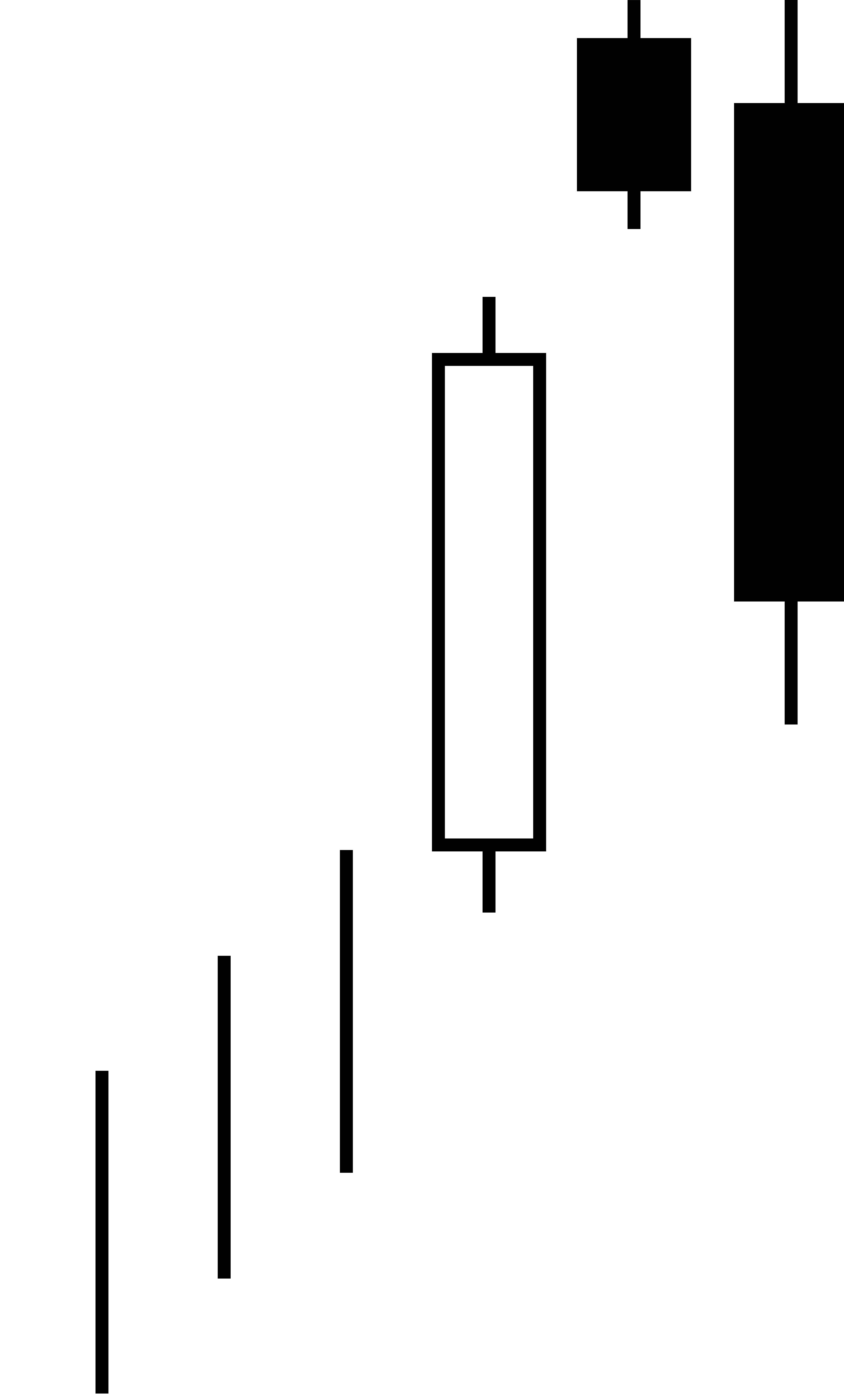 Bearish meeting lines